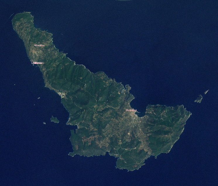 Satellite image of Skopelos, Greek island in the Aegean sea